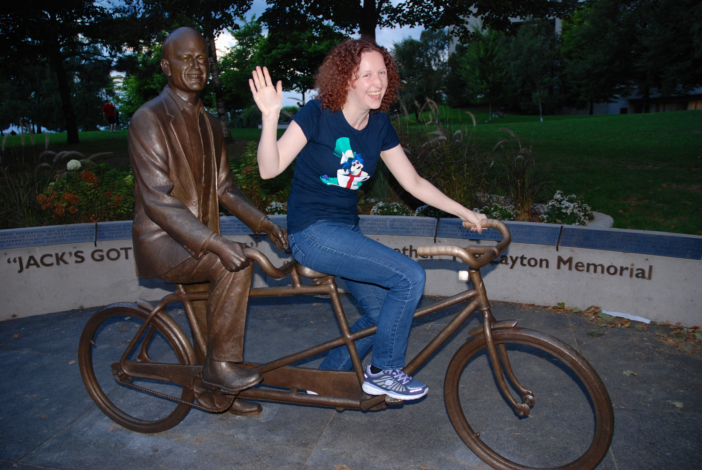 Jack Layton memorial statue with woman posing in the front seat.